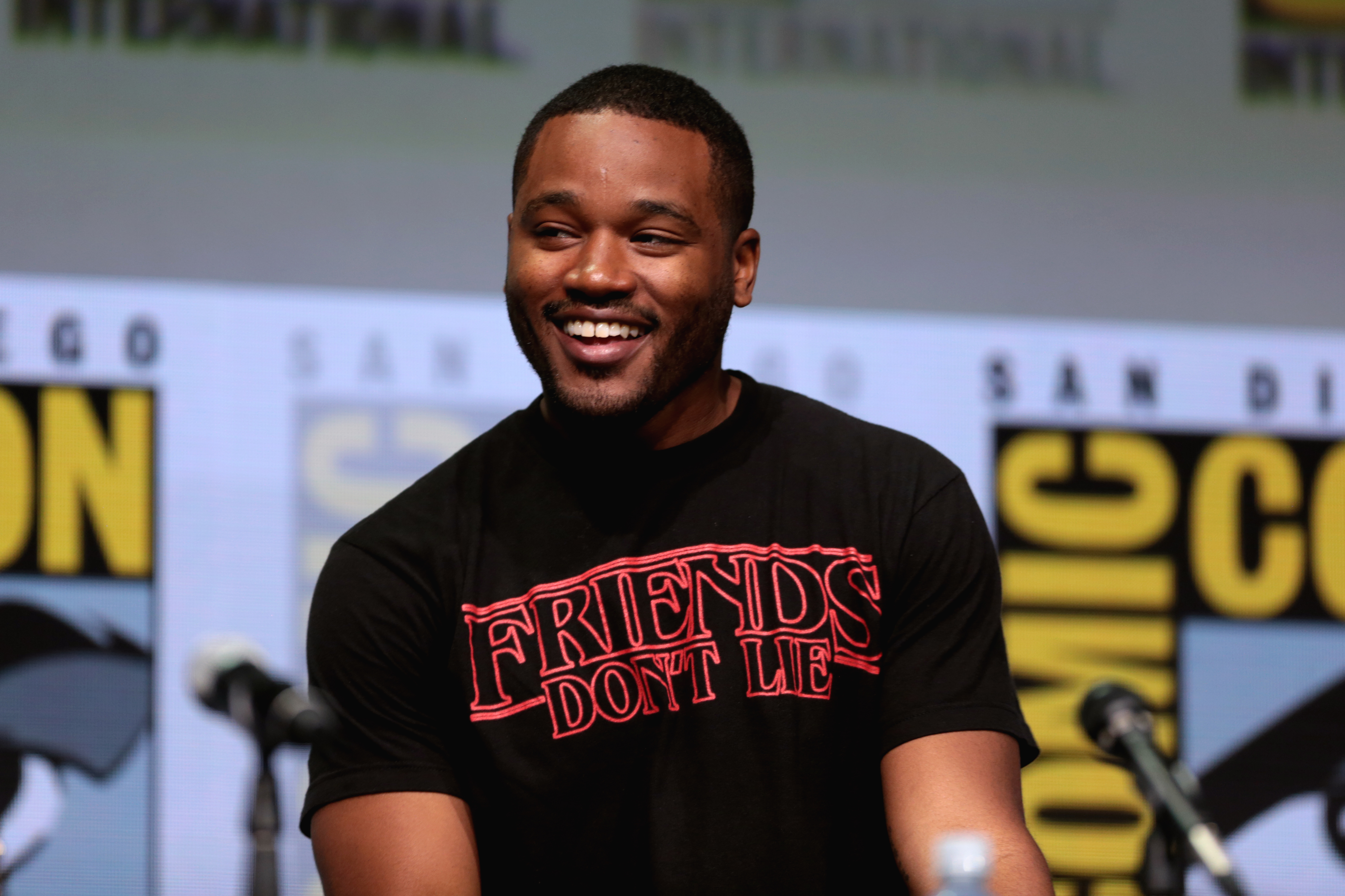 Ryan Coogler speaking at the 2017 San Diego Comic Con International, for "Black Panther", at the San Diego Convention Center in San Diego, California.